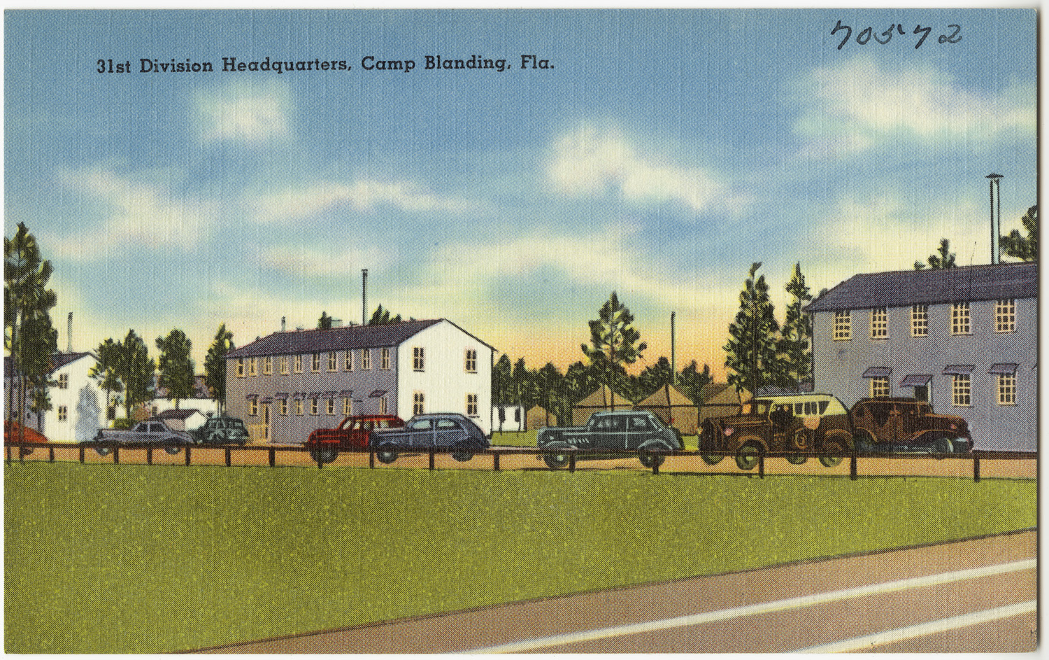 File name: 06_10_007222 Title: 31st division headquarters, Camp Blanding, Fla. Date issued: 1930 - 1945 (approximate) Physical description: 1 print (postcard) : linen texture, color ; 3 1/2 x 5 1/2 in. Genre: Postcards Subject: Military facilities Notes: Title from item. Collection: The Tichnor Brothers Collection Location: Boston Public Library, Print Department Rights: No known restrictions